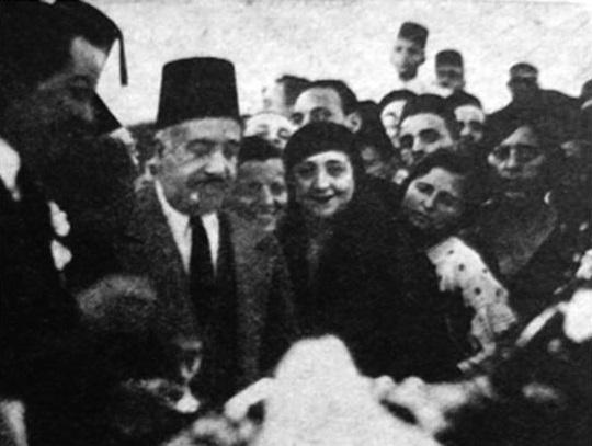 Talaat Harb with Huda Shaarawi 1933